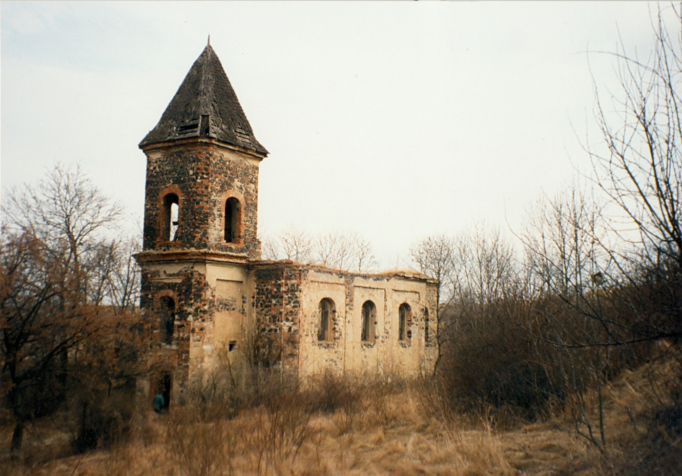 Church of michael archangel in Zlovědice